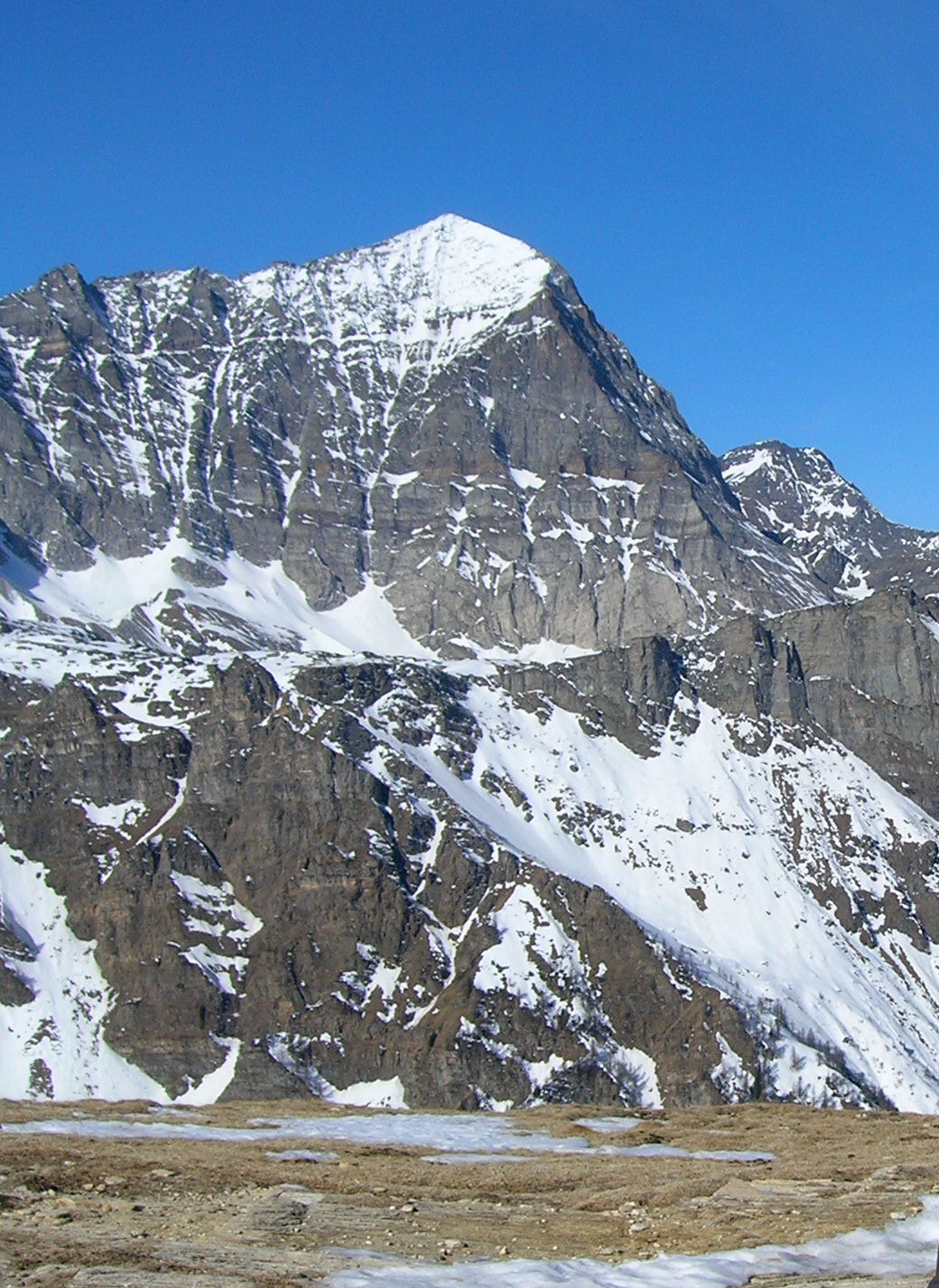 Monte Leone, parete sud-est, dal monte Teggiolo